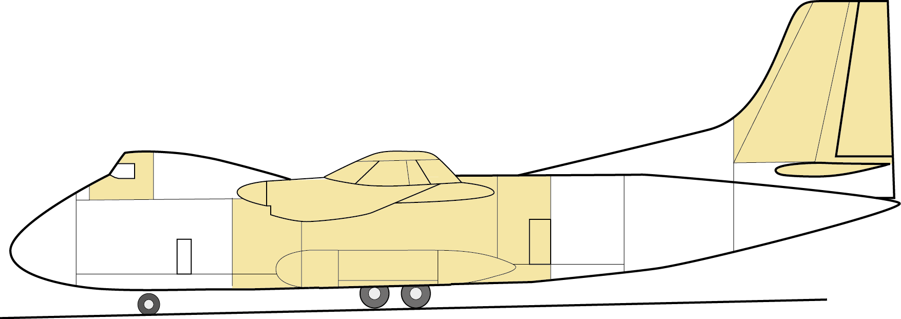 Conceptual drawing of a projected civilian derivative of the C-160 Transall